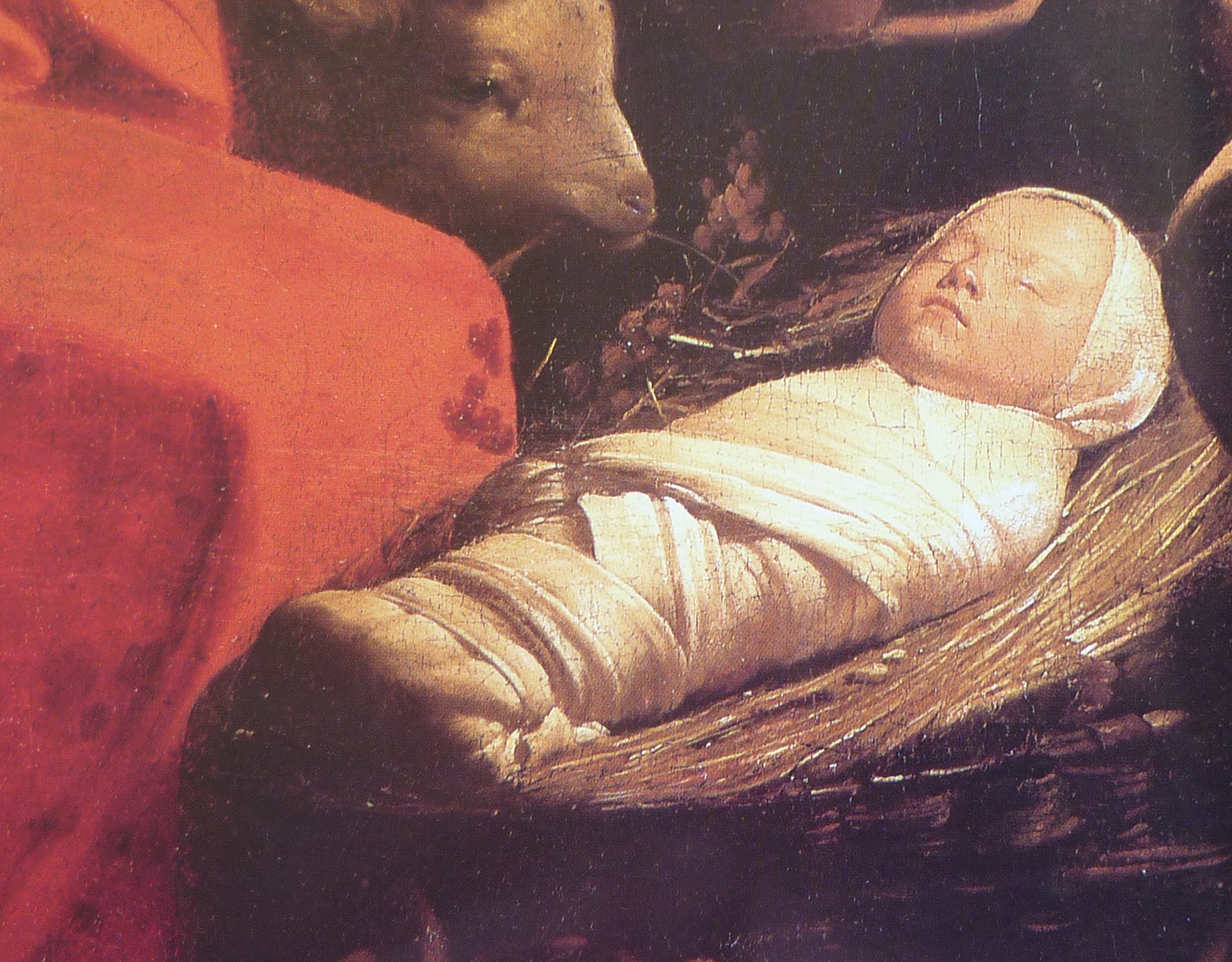 Swaddled baby